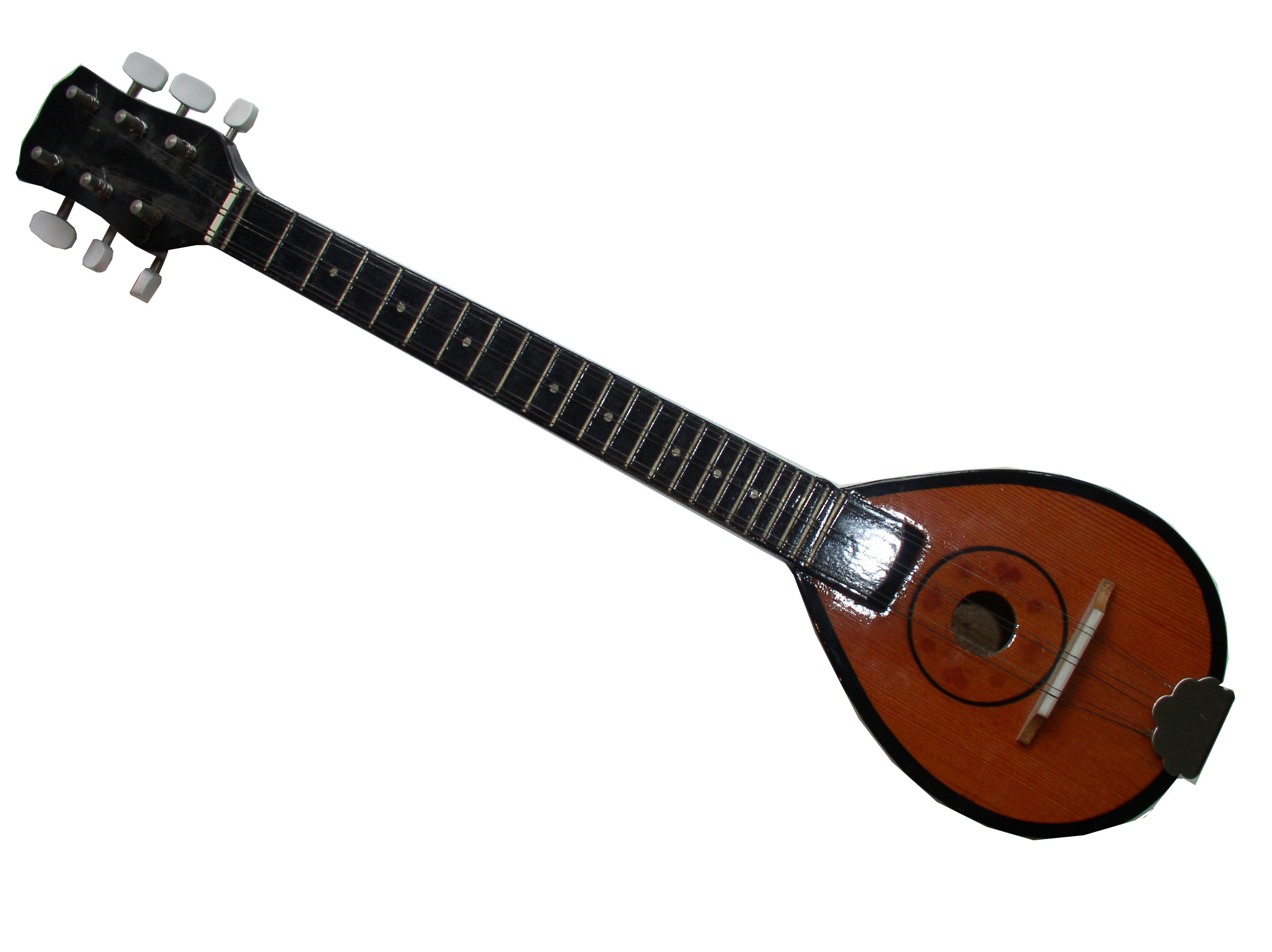 Greek baglama (little 'sister' of the bouzouki) own picture